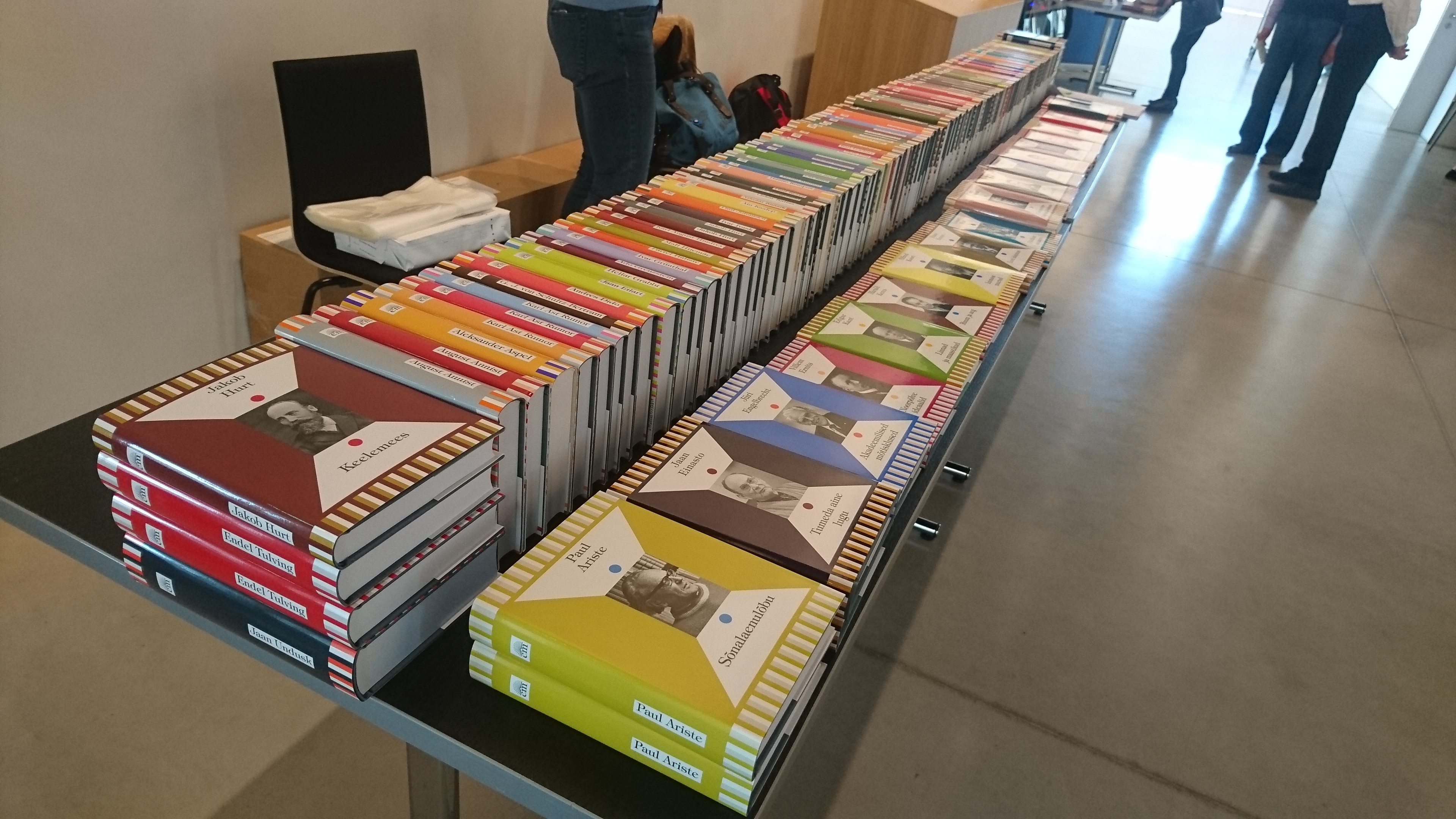 Book sale by Ilmamaa publishing house on the conference 'Eesti mõttelugu' in Estonian National Museum on April 20, 2018.